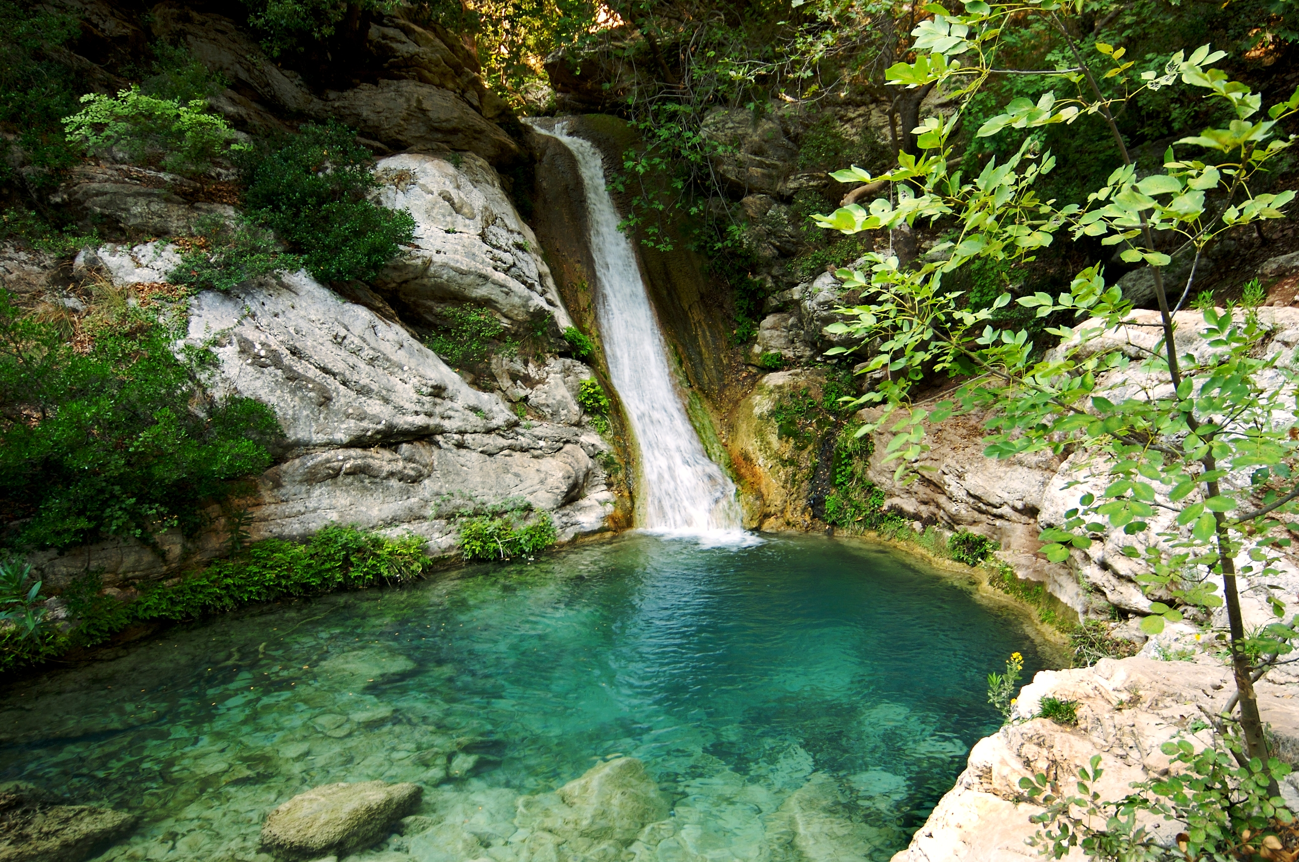 Polylimnio is located in Messinia